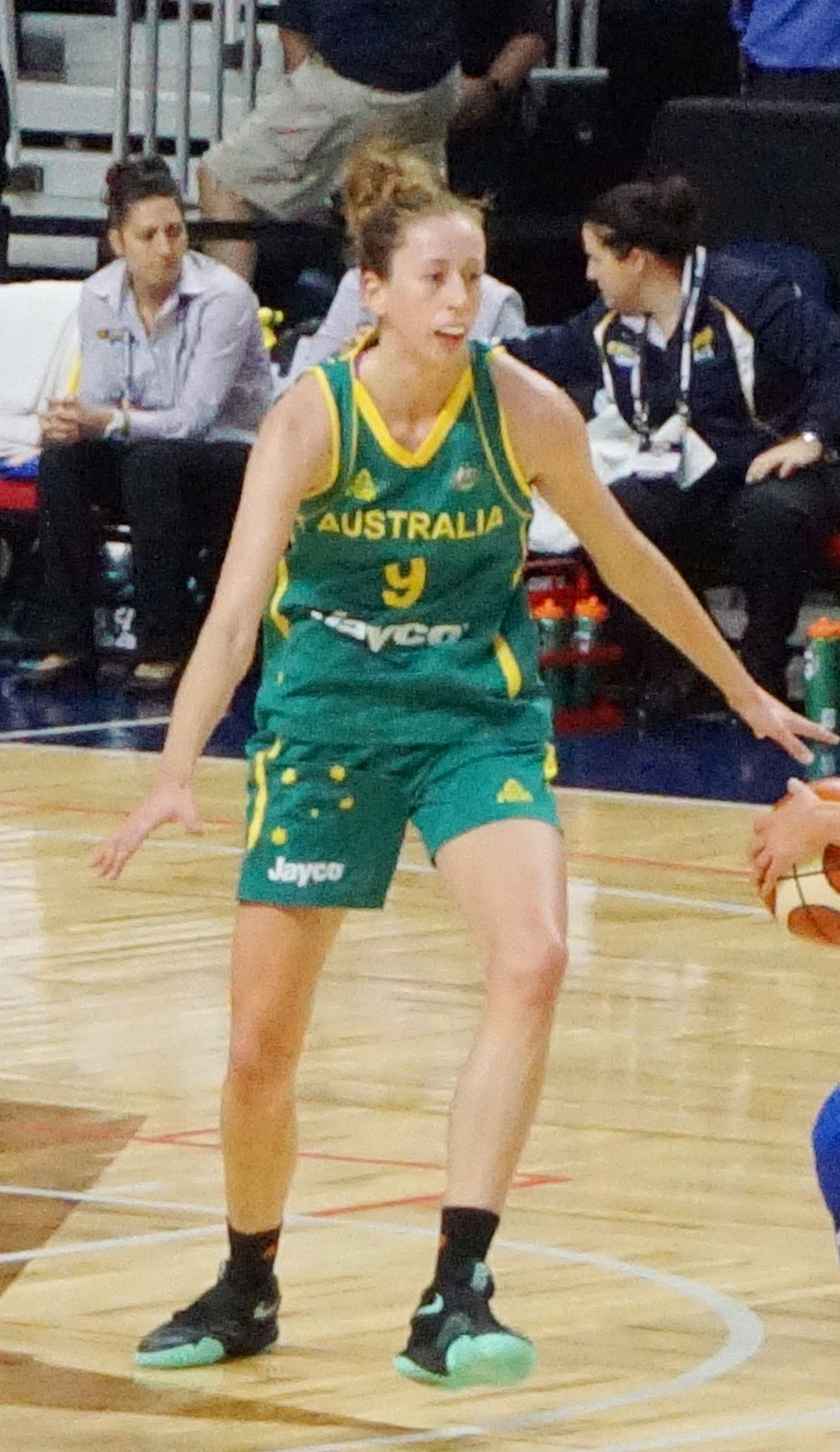 Natalie Burton, Australian National Senior team. Taken at Webster Bank Arena (Bridgeport, CT) at the Olympic exhibition game between Australia and France